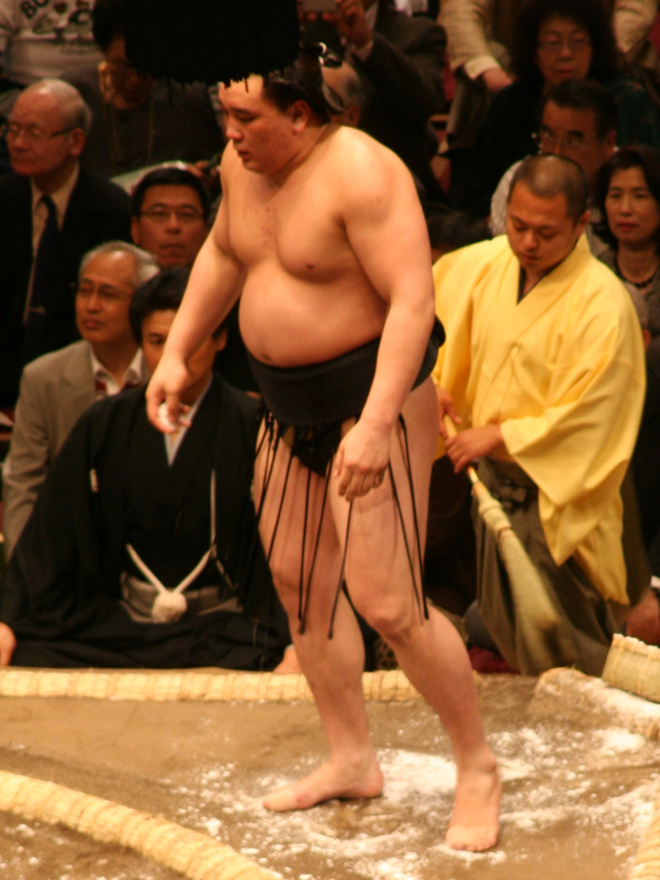 Sumo Wrestler Ama Kōhei (currently known as Harumafuji Kōhei) on the first day the of May Tournament 2007 in Tokyo.